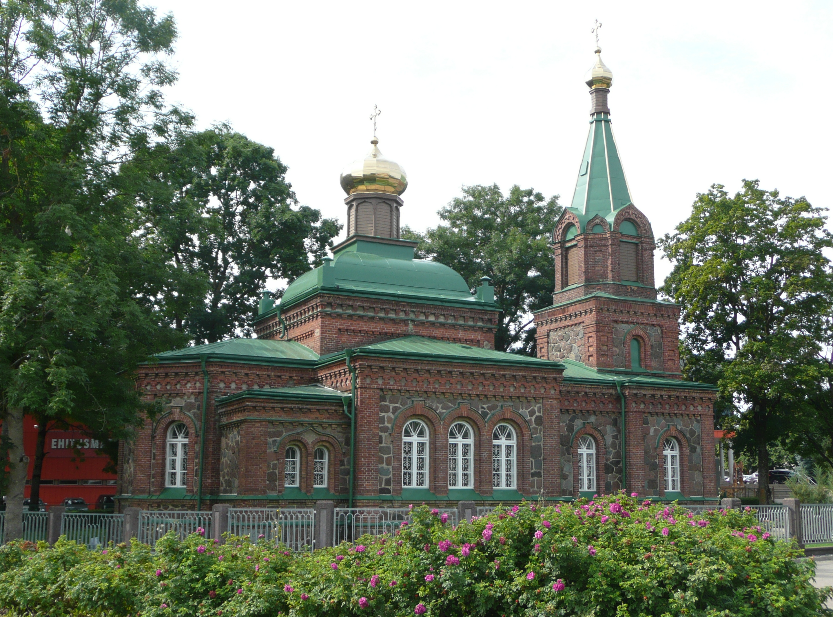 Orthodox Church of the Epiphany in Jõhvi, Ida-Virumaa, Estonia (August 2013).